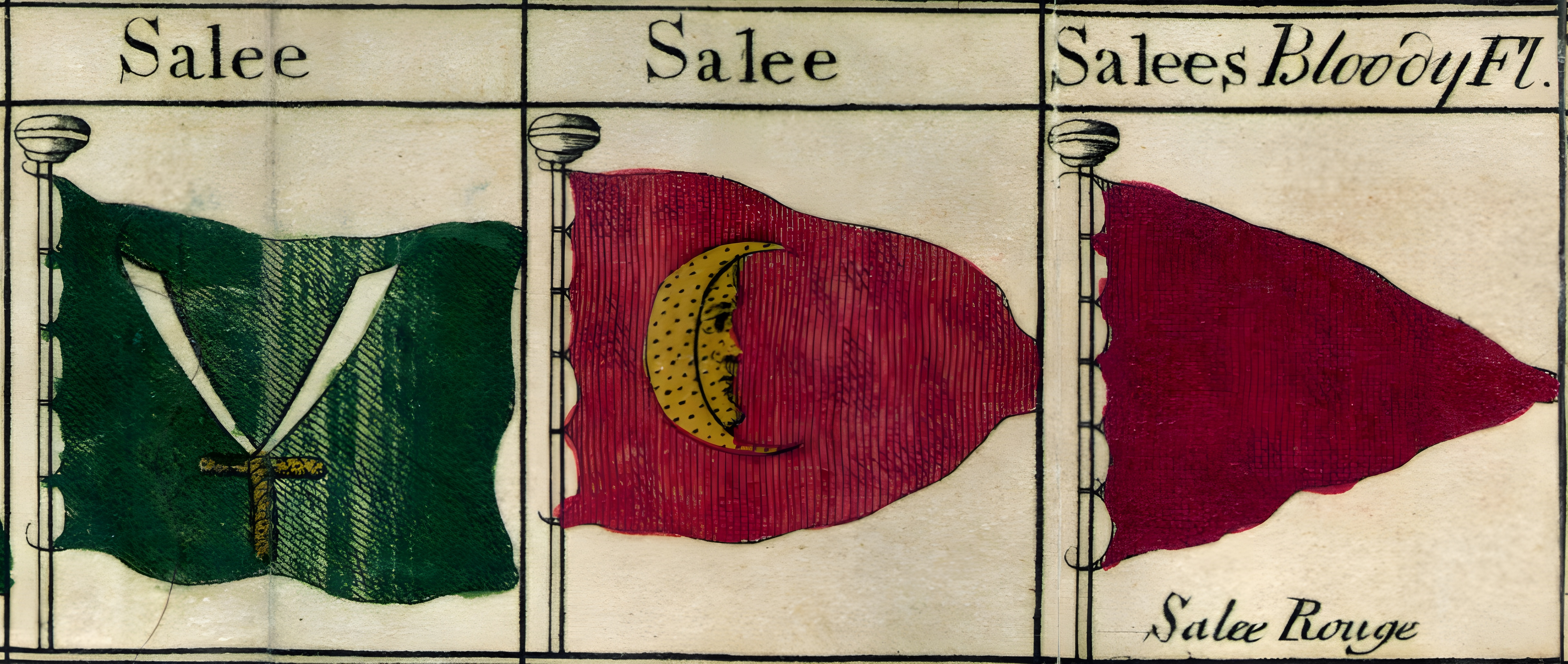 Naval flags of Salé according to Bowles